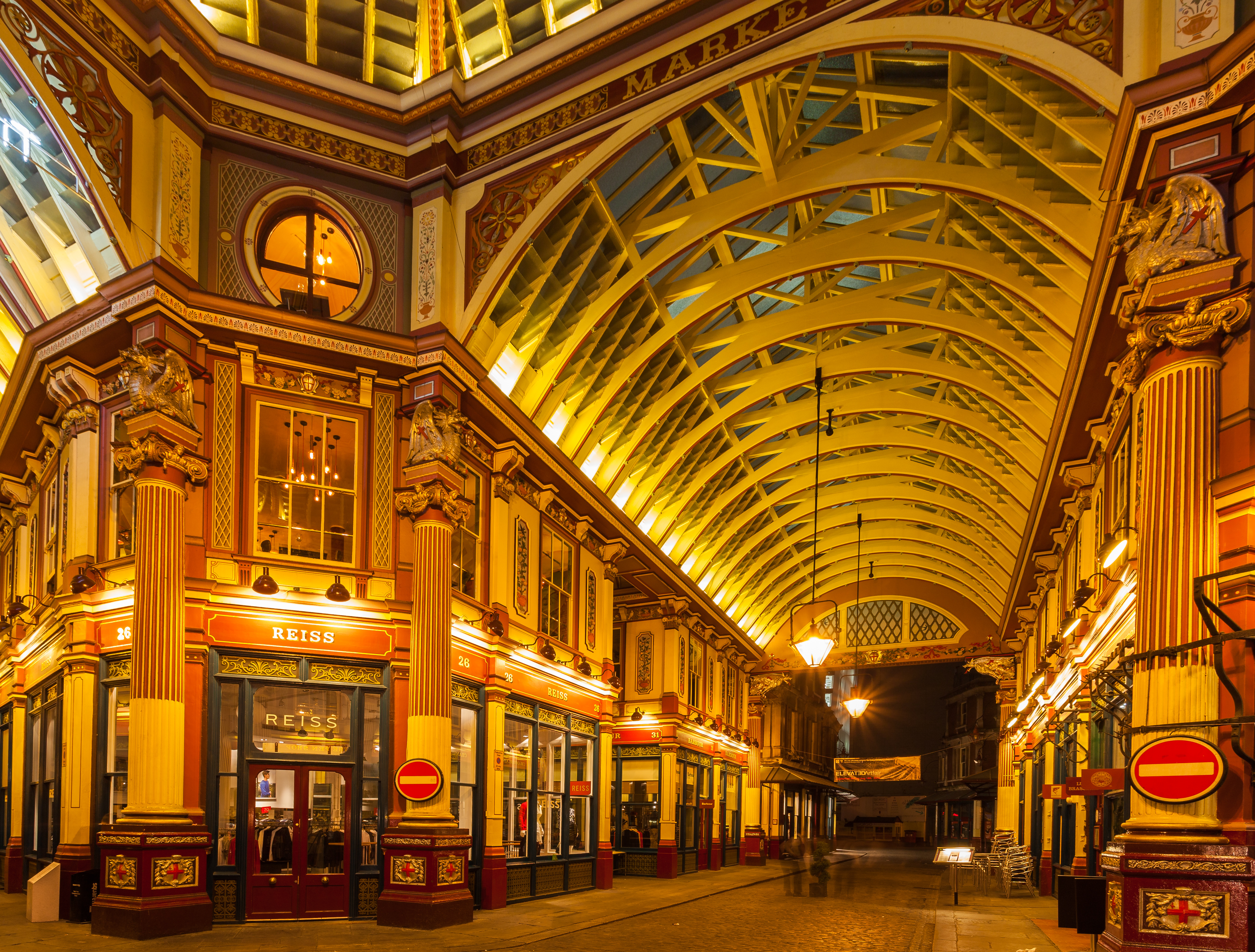 Leadenhall Market, London, England